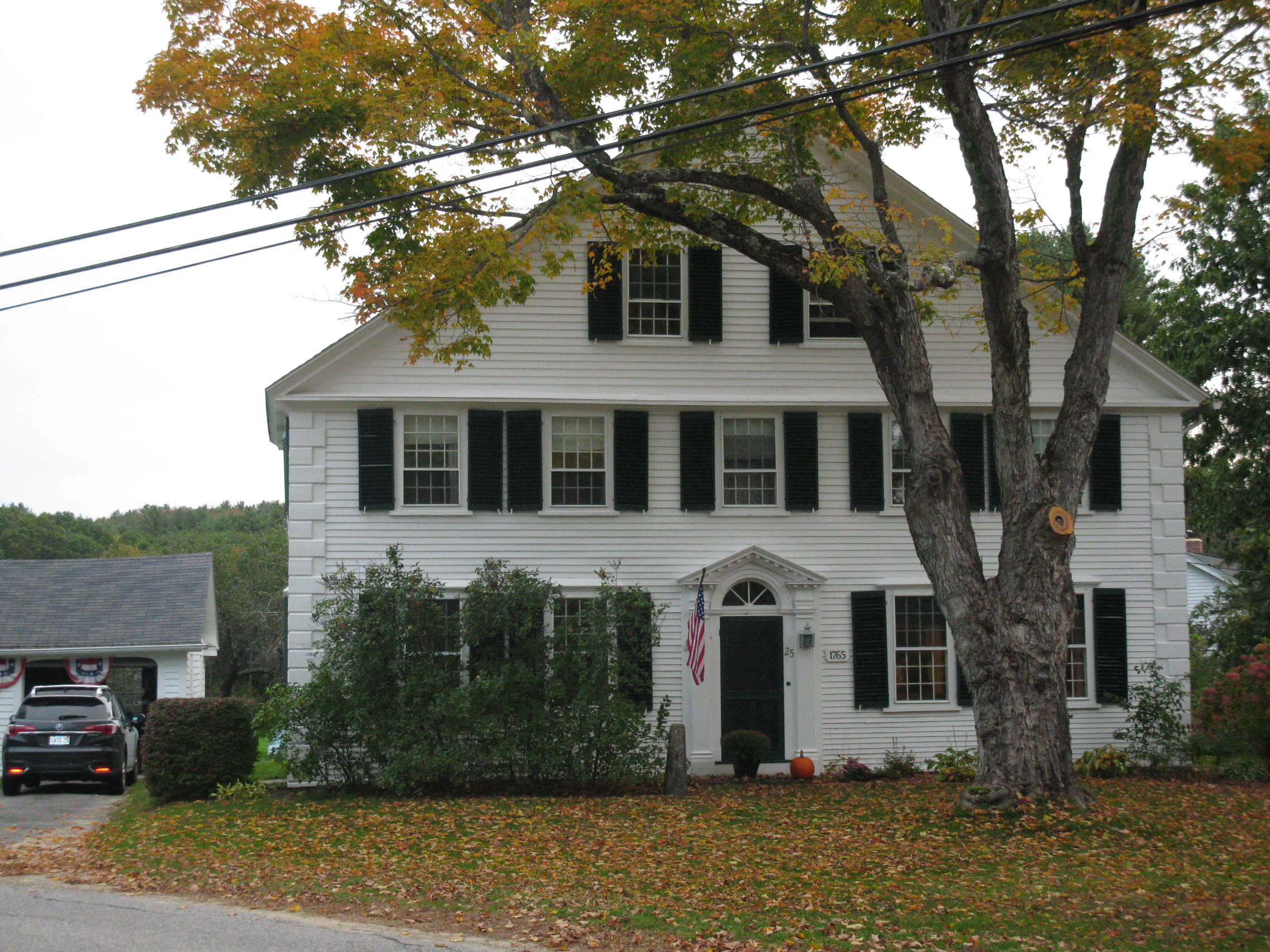 House in Royalston Historic District